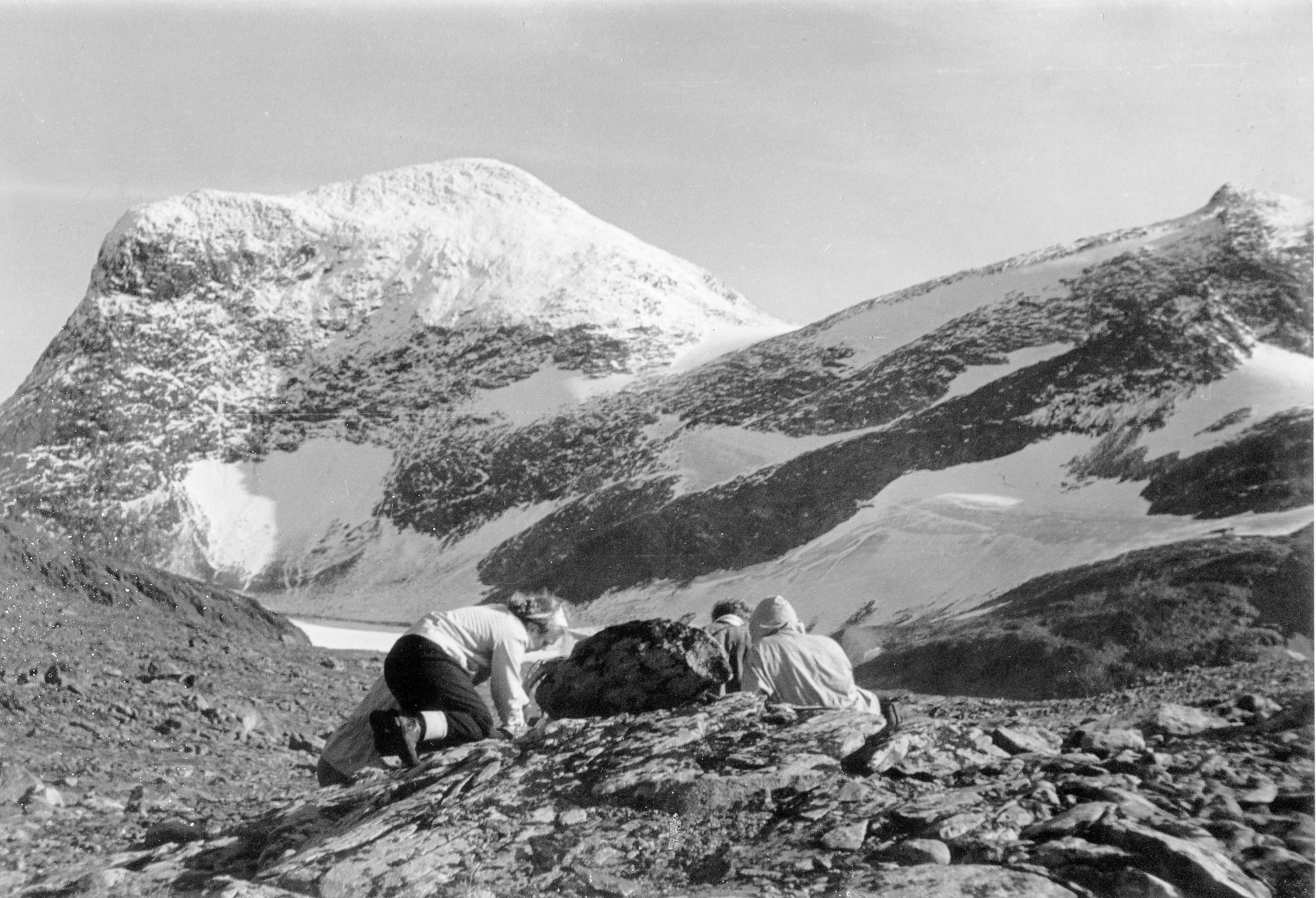 Mountain tour towards Sulitjelmabreen, at the back mount Vaknatjåhkkå.